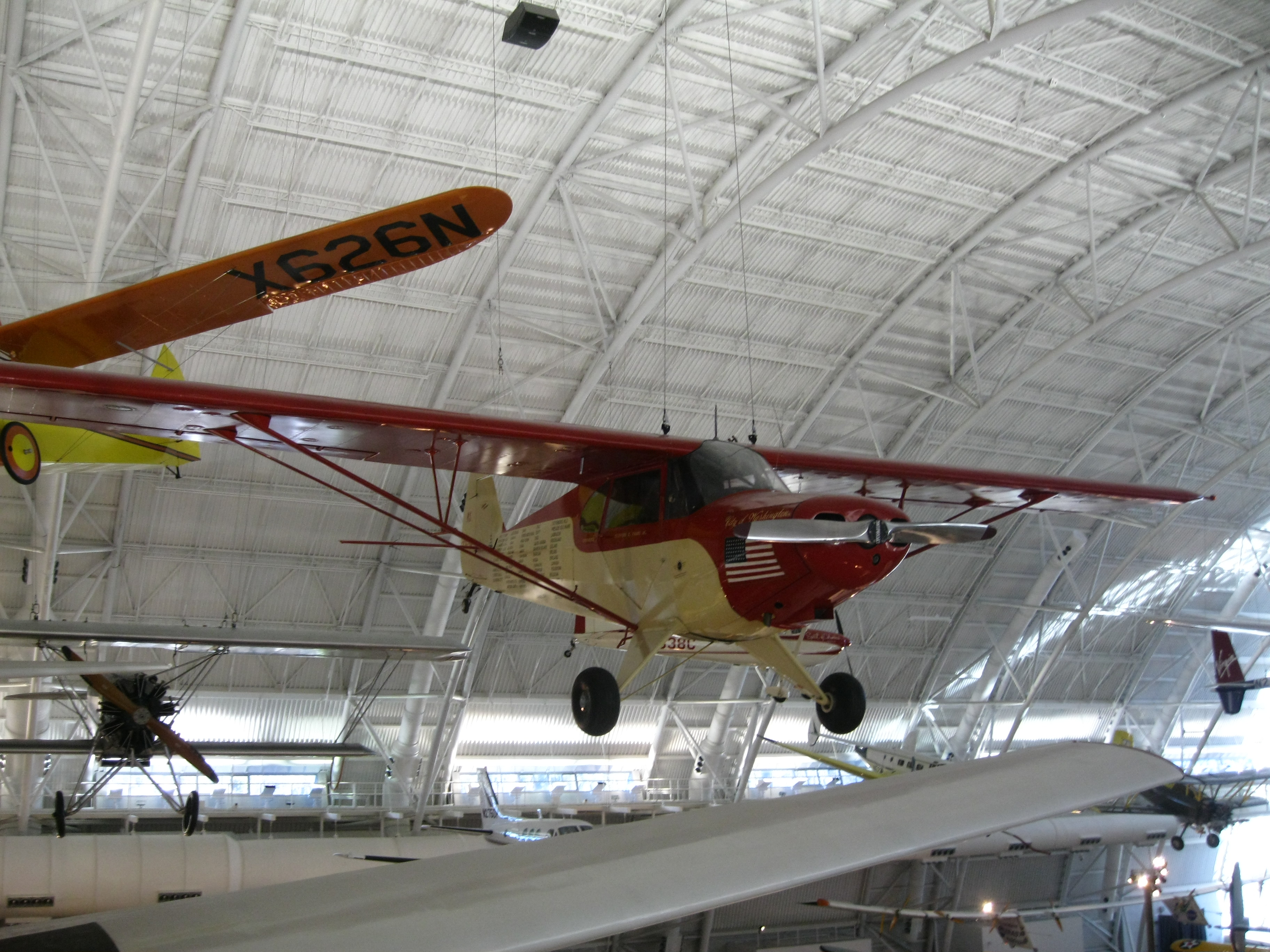 Piper PA-12 Super Cruiser "City of Washington" which made an around the world flight in 1947, on display at the Smithsonian Institution's National Air and Space Museum's Steven F. Udvar-Hazy Center near Washington DC.